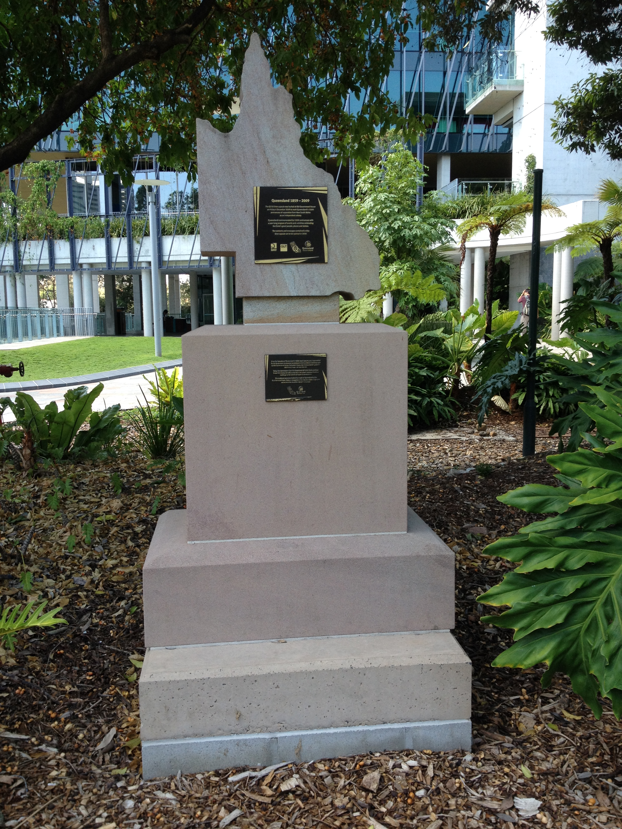 The Q150 time capsule to mark Queensland's separation from New South Wales at the Old Government House, Queensland University of Technology, Gardens Point campus, Brisbane